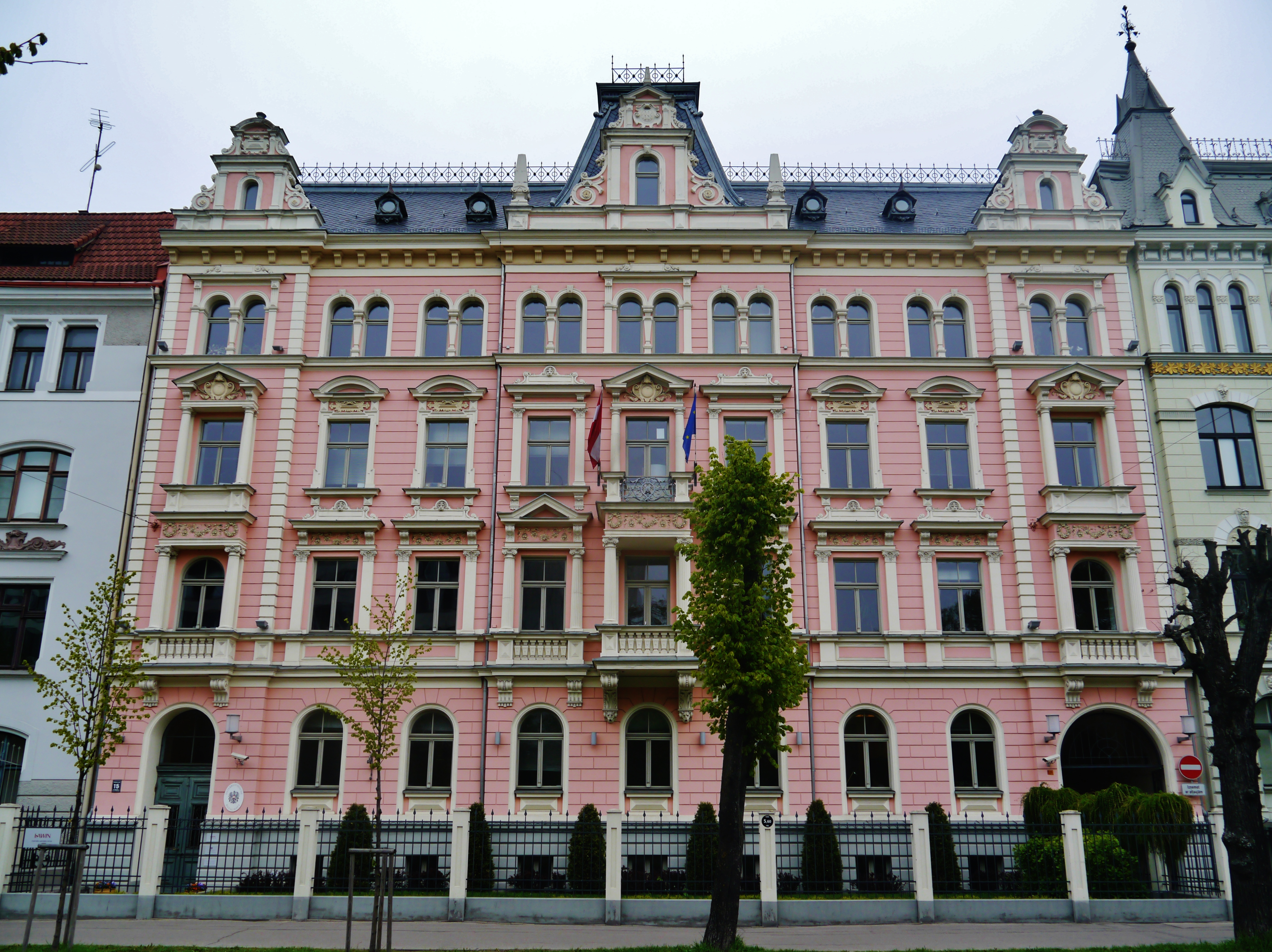 Elisabeth Street, 15, Riga, Latvia